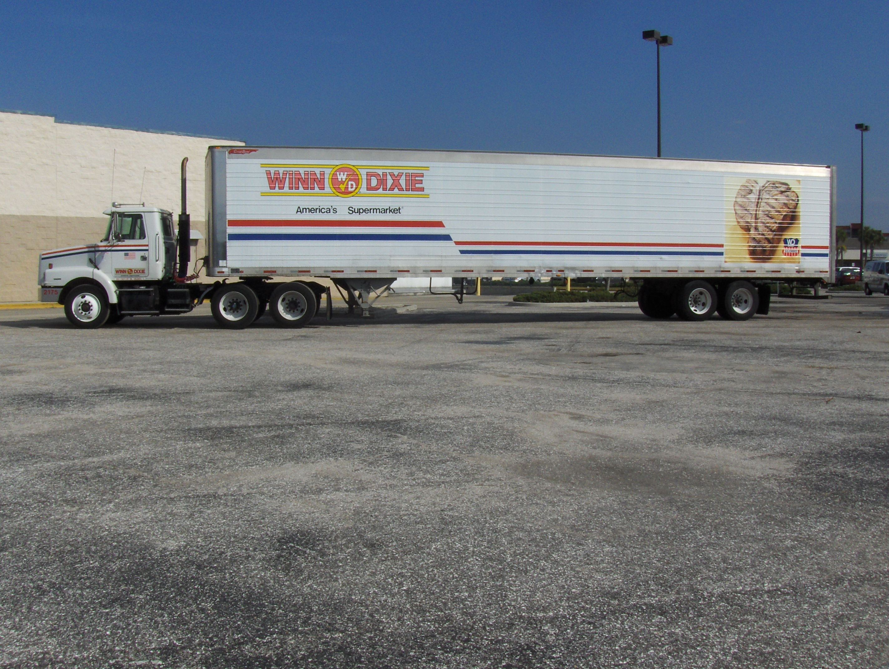 Typical Winn-Dixie truck at store #736.